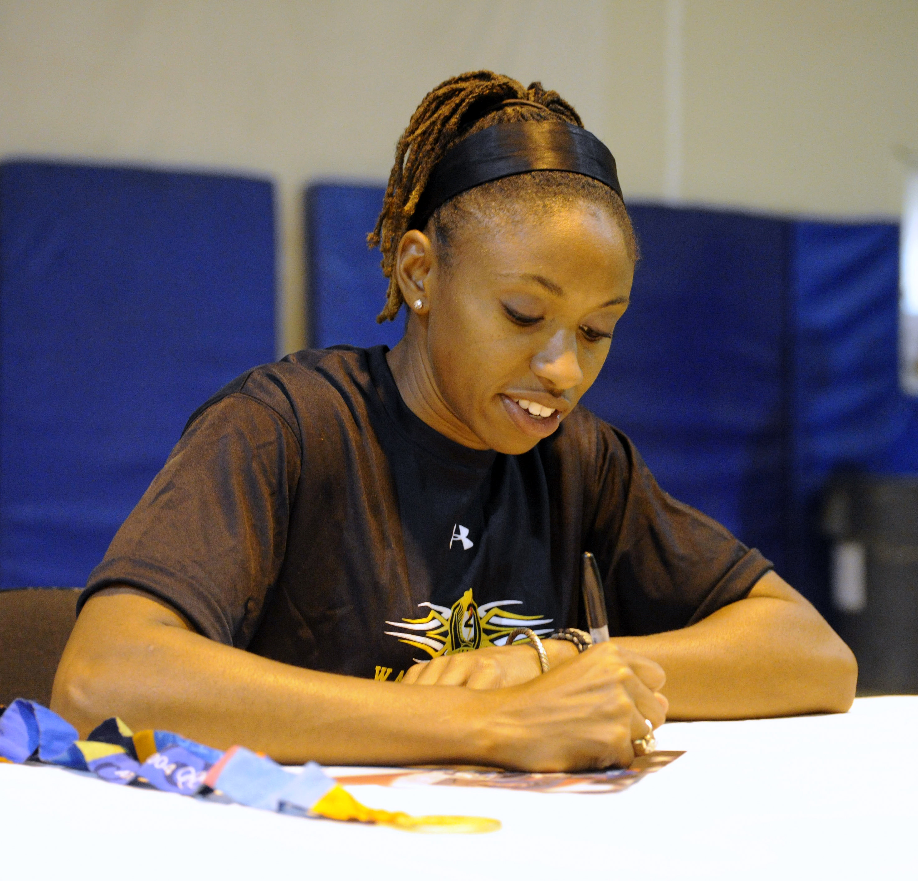 U.S. Olympic runner Moushaumi Robinson signs autographs for U.S. Soldiers in a gym at Forward Operating Base Warhorse in the Diyala province of Iraq Aug. 10, 2010. U.S. Olympic athletes visited Soldiers in Iraq as part of the Olympic Hero Tour sponsored by the Moral, Welfare and Recreation department. (U.S. Army photo by Sgt. Brandon D. Bolick/Released) (original text)